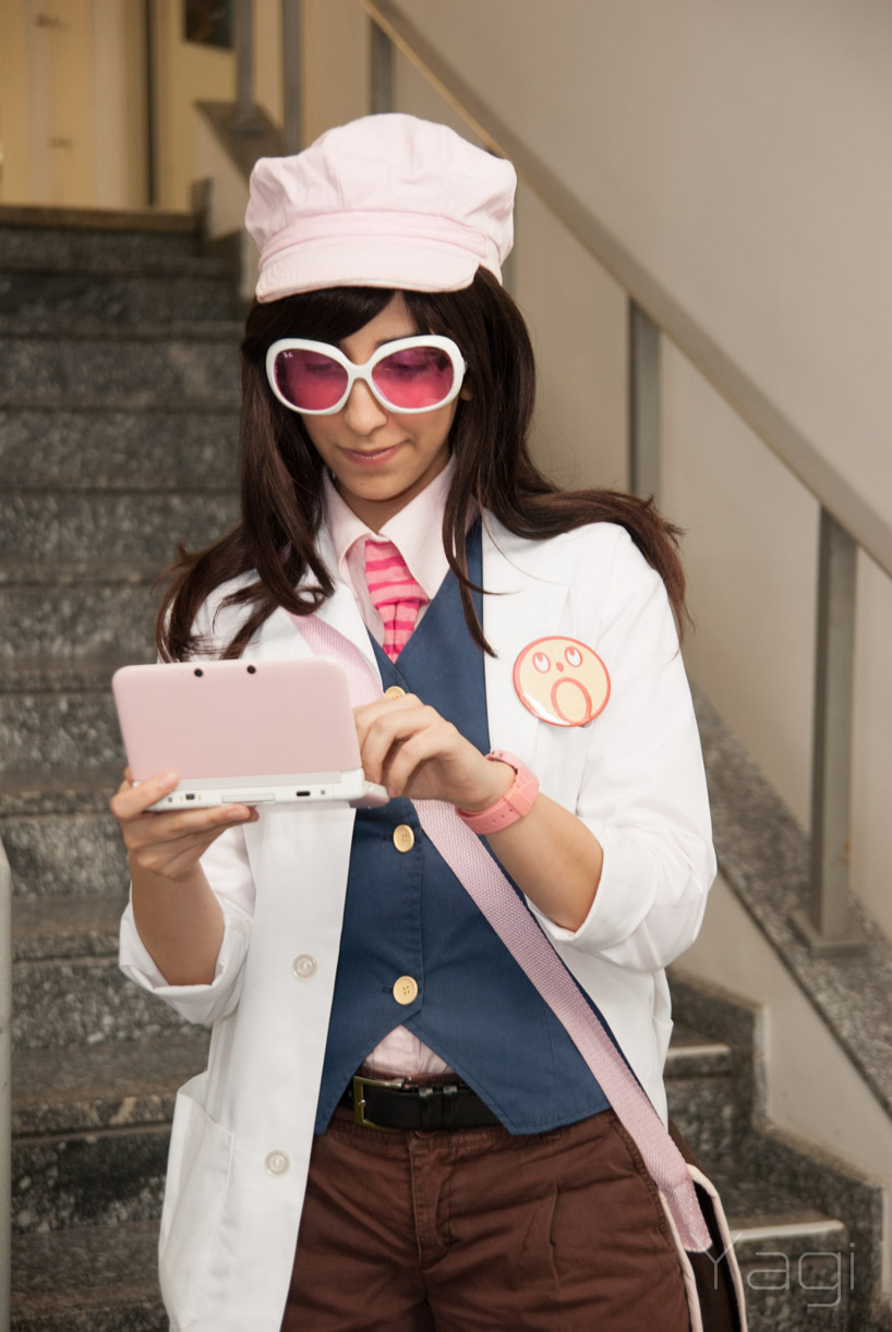 Cosplay of the Ace Attorney character Ema Skye